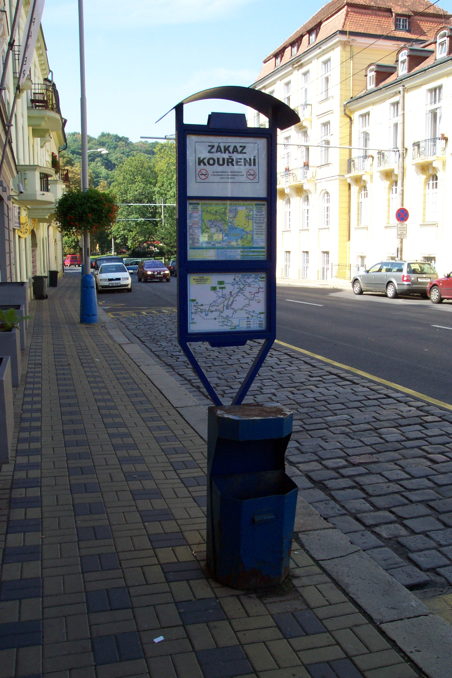 Teplice, Czech Republic, trolleybus stop